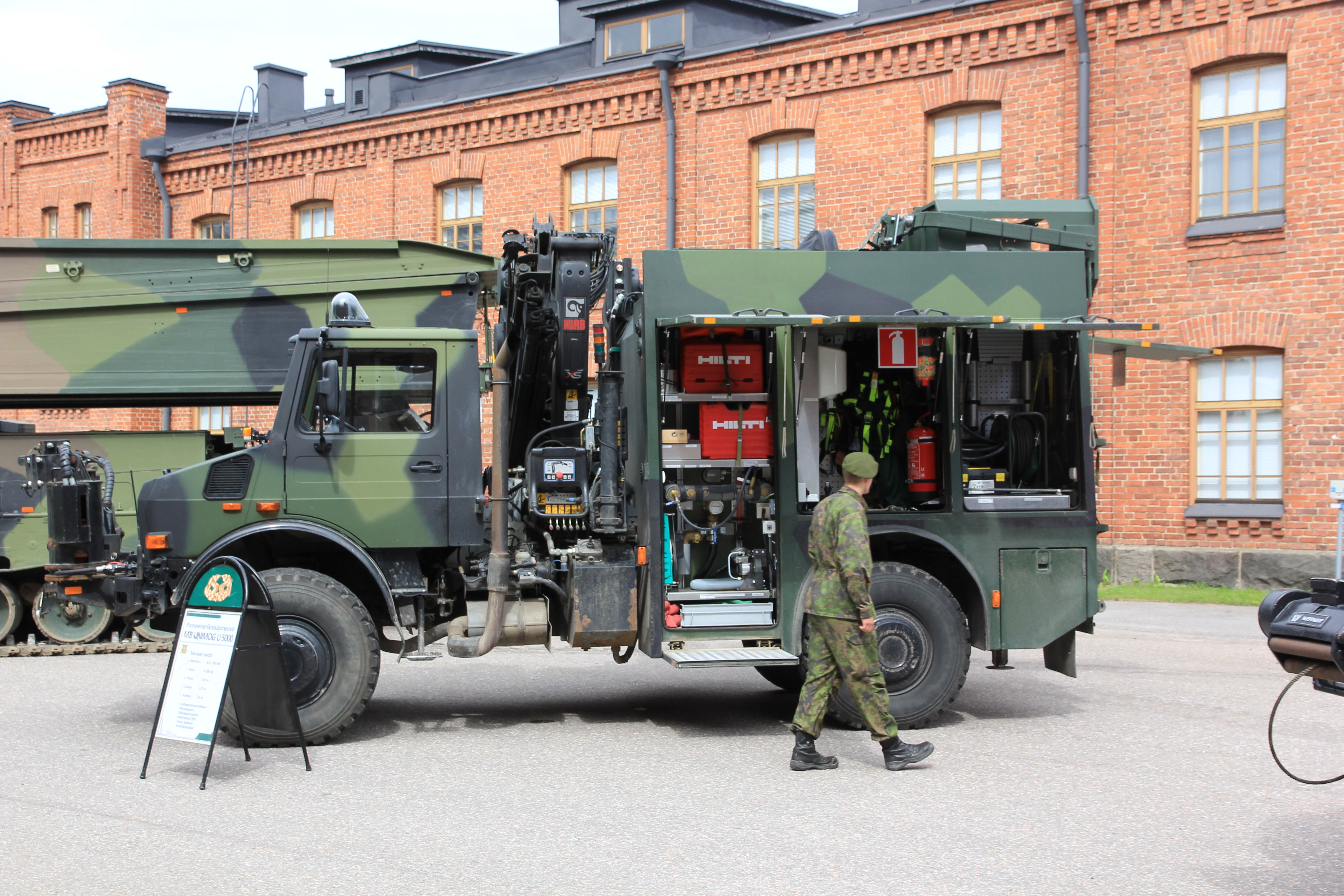 Mercedes-Benz Unimog U5000 engineering equipment vehicle on display during Finnish Defence Forces 2014 Flag day in Lappeenranta Rakuunanmäki.